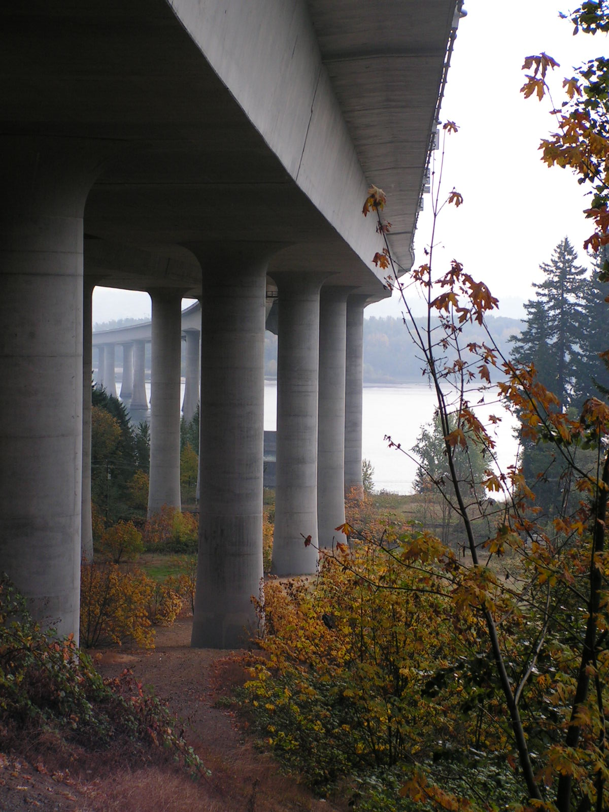 Beneath the Glenn Jackson Bridge (on I-205) in Vancouver, WA, looking towards the Columbia River and Portland, OR